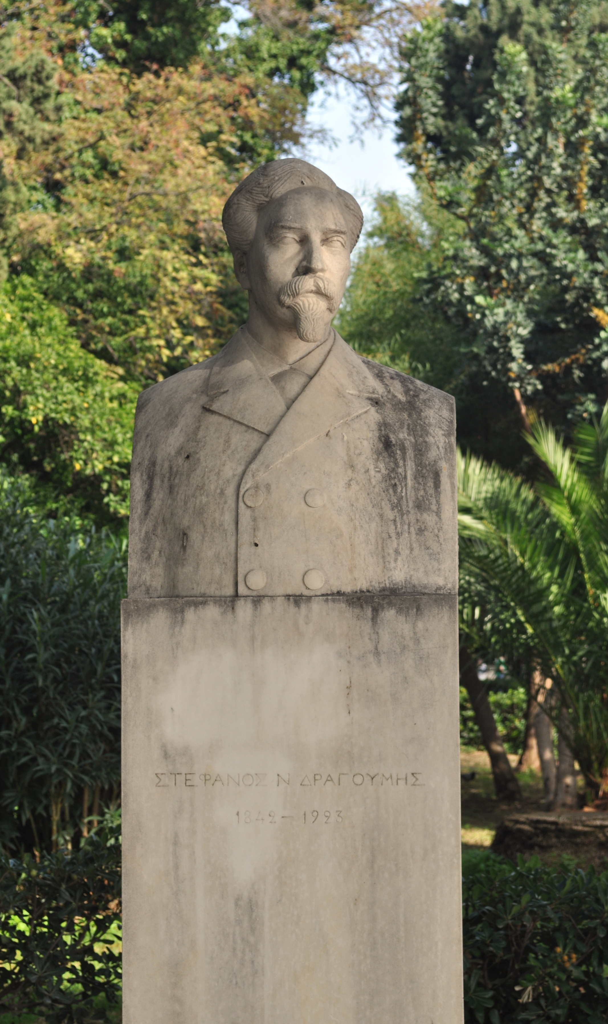 Monument in National Gardens in Athens